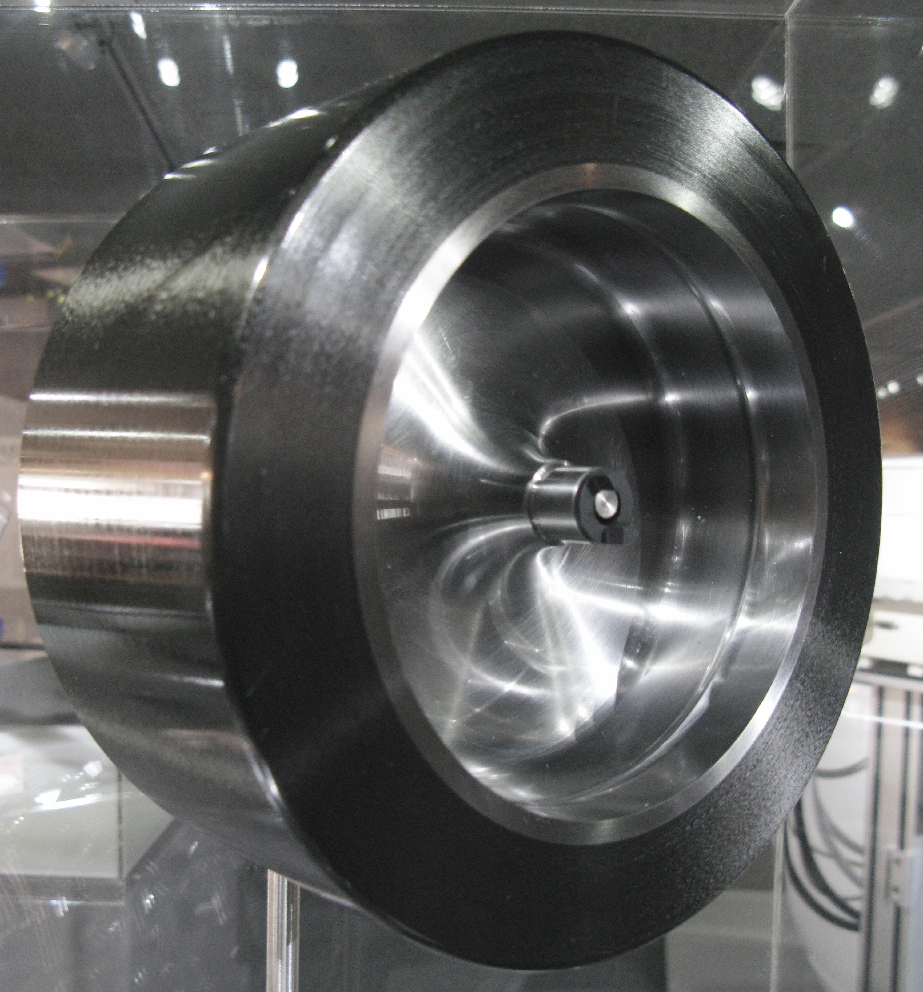 Photo of a Flybrid Systems Kinetic Energy Recovery System flywheel